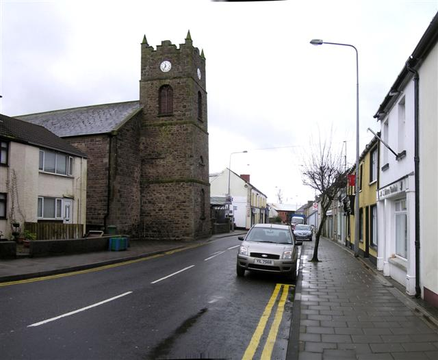 Ballinamallard, County Fermanagh Looking south-west down the main street. Magheracross Parish Church of Ireland is on the left side of the road. It is in the Diocese of Clogher.